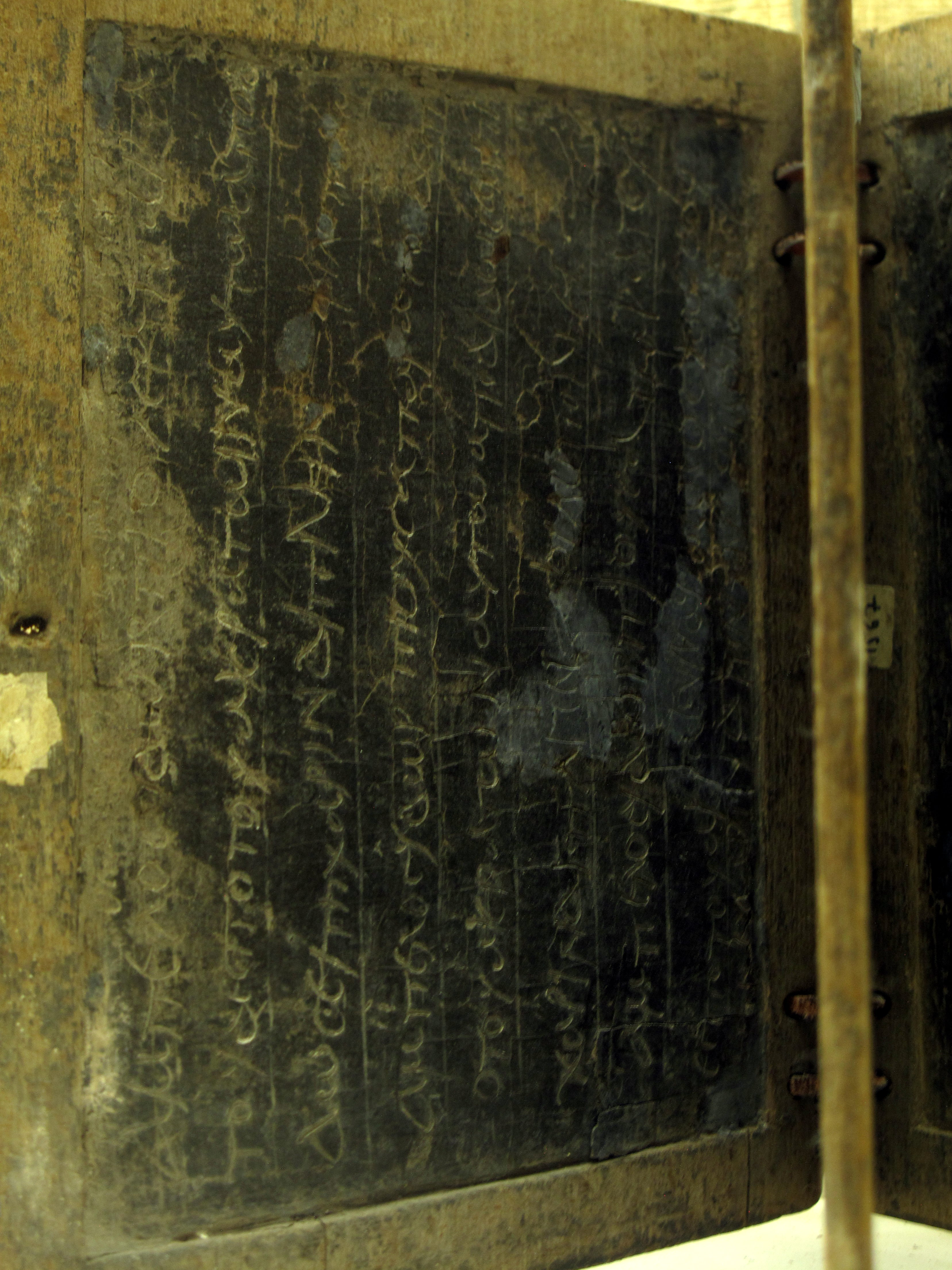 Writing excercices of a schoolchild. 3rd century CE.